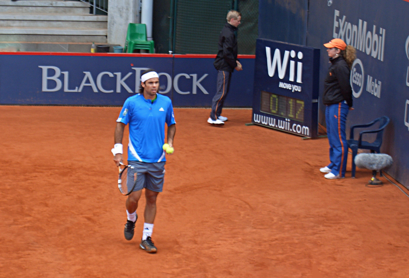 Fernando Gonzalez at the Hamburg Masters 2007